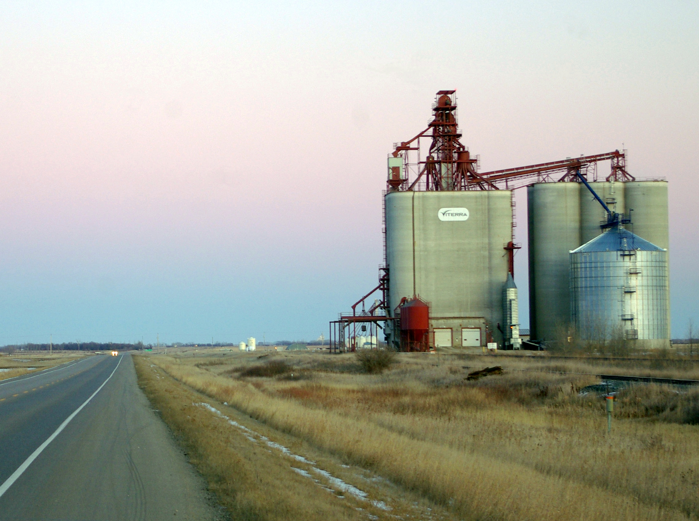 Looking eastwards at the inland grain terminal located on Highway 18 east of Carnduff, Saskatchewan, Canada. The Saskatchewan Wheat Pool constructed the facility in the late 1990's, and as of 2012 it is still operated by the SWP successor organization Viterra.